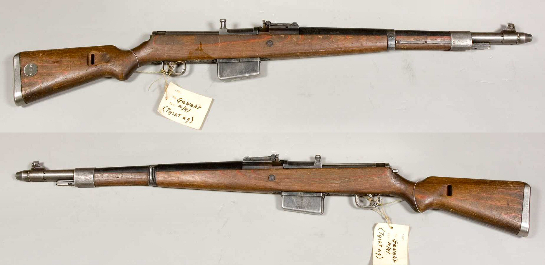 Gewehr 41 (Walther), Germany. Caliber 7.92x57mm (8x57mmIS). From the collections of Armémuseum (Swedish Army Museum), Stockholm, Sweden.